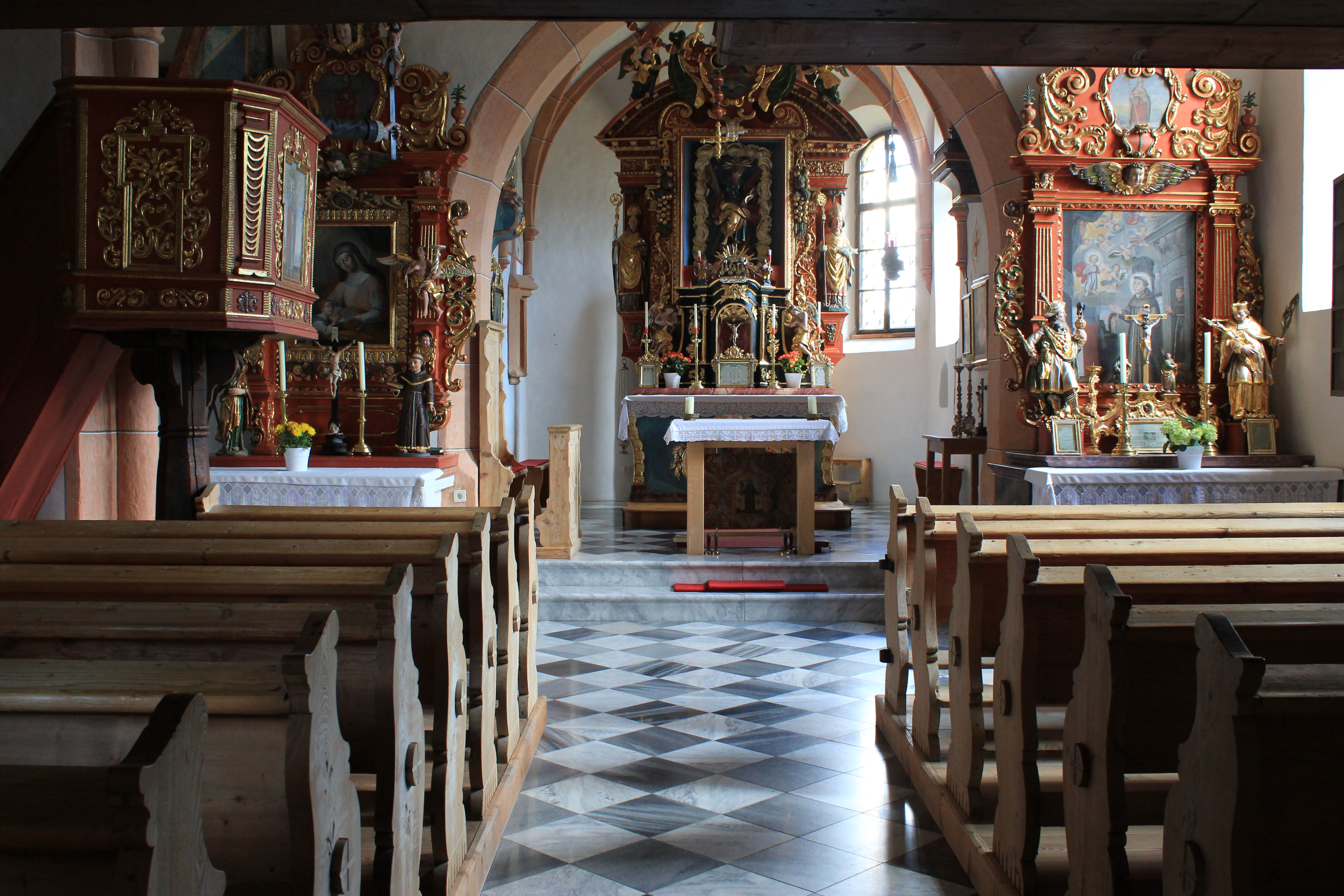 Church of Rittersdorf in the community of Irschen